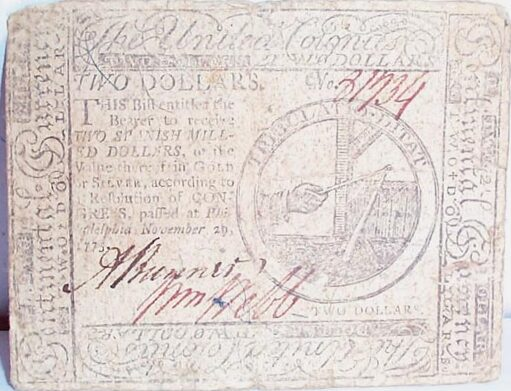 $2 paper money issues by United Colonies (Second Continental Congress in 1775. Source: scanned from original copy.